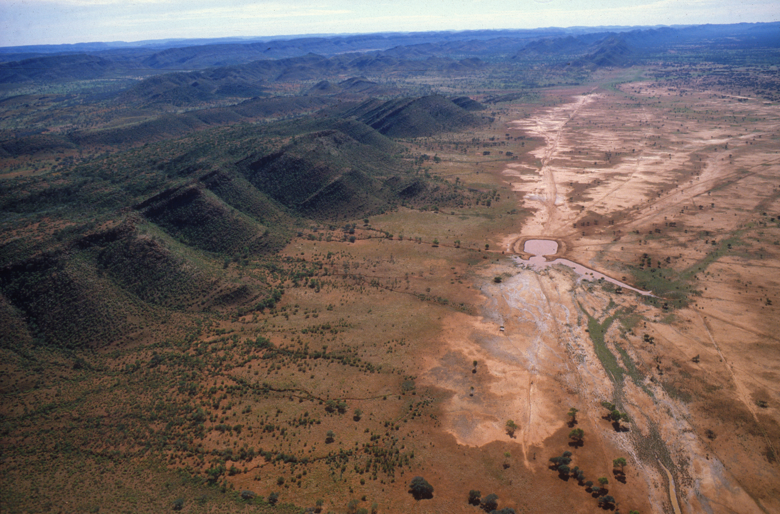 Aerial view of MacDonnell Ranges and soil erosion, near Alice Springs, Northern Territory. October 1986. Photo credit: Robert Kerton